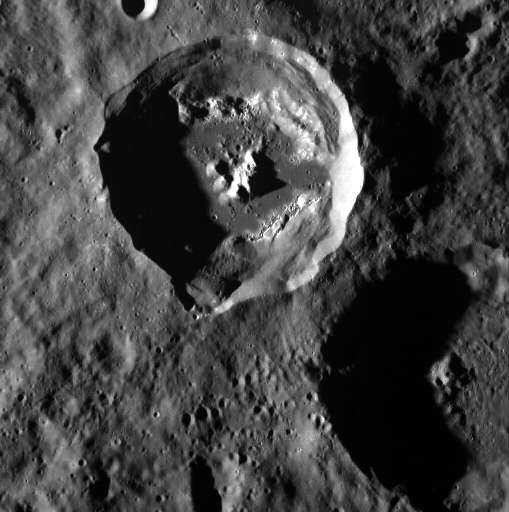 Baranauskas crater on Mercury. MESSENGER Wide Angle Camera image. North is at top. Width is approximately 64 km. Emission Angle: 0.5 Incidence Angle: 79.8 Latitude: 50.5 Longitude: 320.5 Phase Angle: 79.4